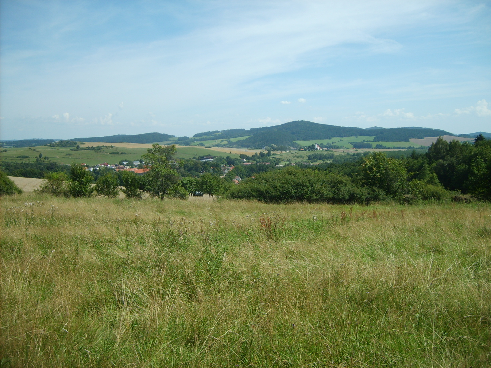 Hrádek u Sušice municipality - general view.